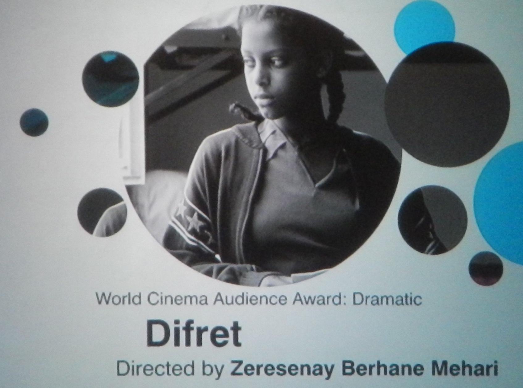 Zeresenay Berhane Mehari at the Sundance 2014 Awards Ceremony